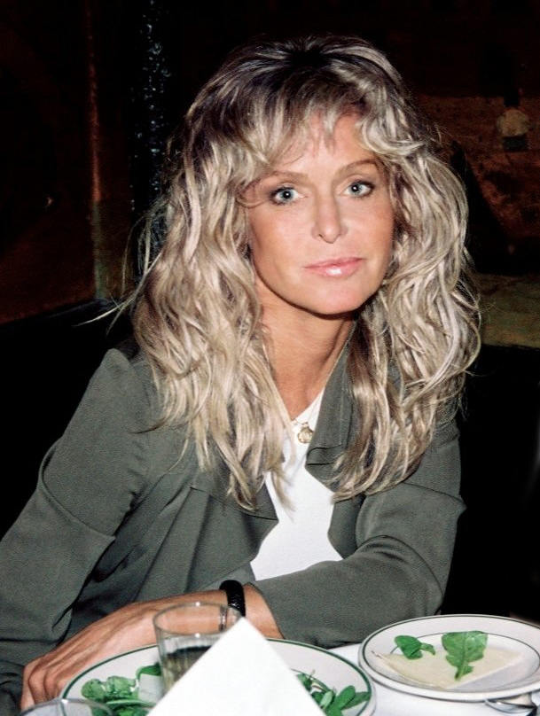 Farrah Fawcett